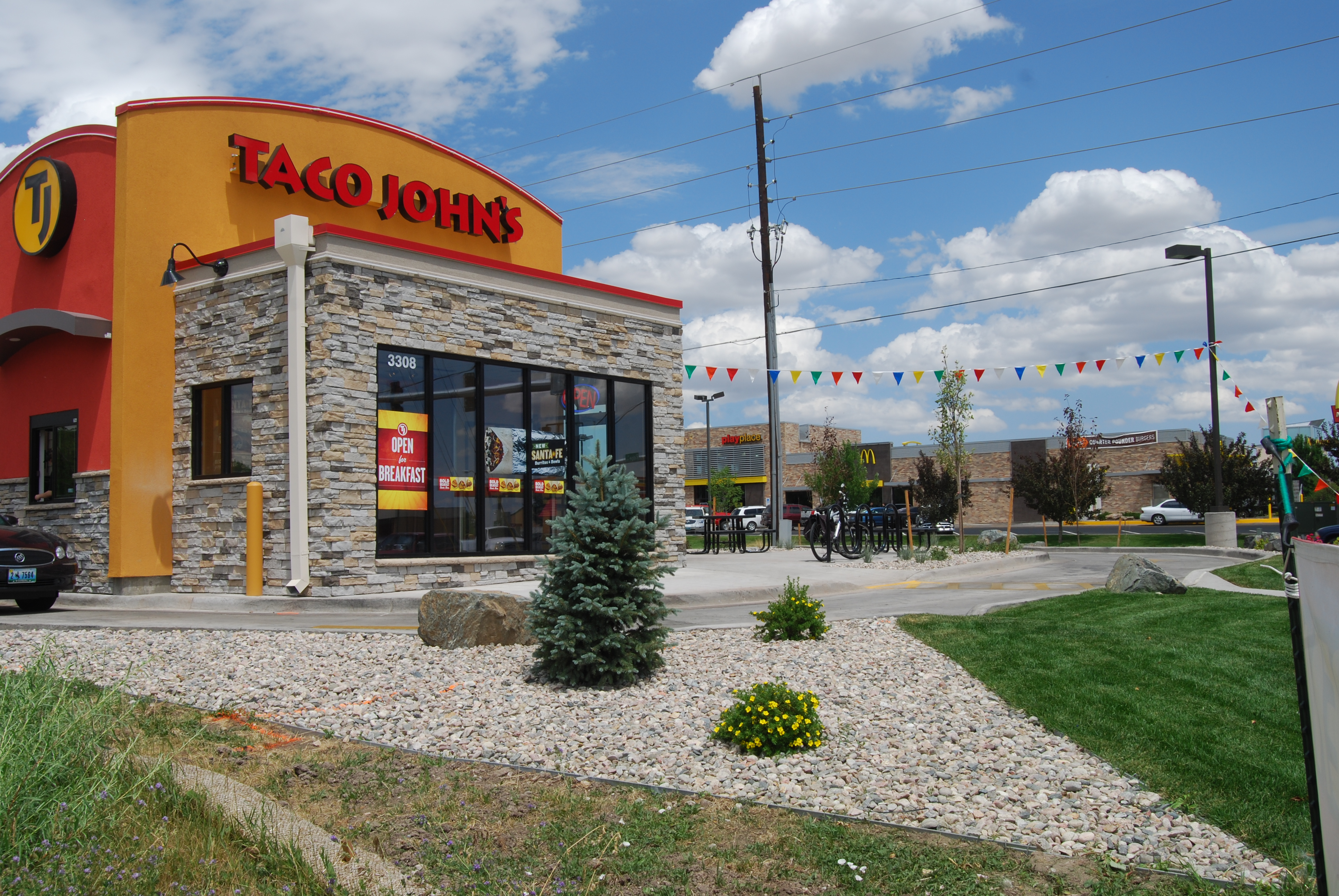 New Concept Taco John's Restaurant July 2013